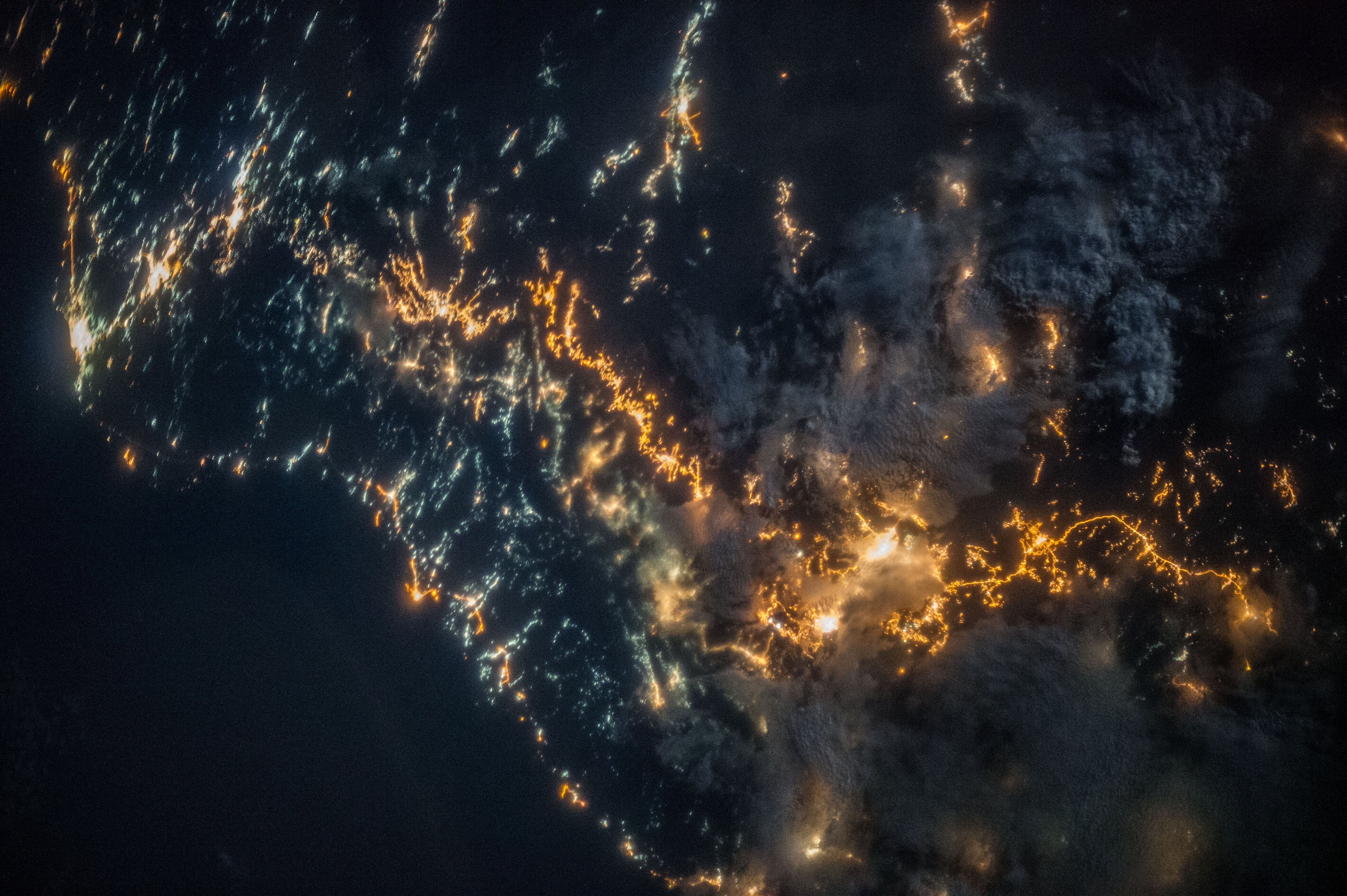 A nighttime view of southwestern Saudi Arabia is featured in this image photographed by an Expedition 36 crew member on the International Space Station. In addition to city lights, patchy cloud cover partially obscures and blurs city lights, especially in the vicinity of Khamis Mushait and Abha. While much of the country is lightly populated desert – and relatively dark at night due to lack of city and roadway lights – the southwestern coastal region has more moderate climate and several large cities. Three brightly lit urban centers are visible at top left; Jeddah, Mecca, and Taif. Jeddah is the gateway city for Islamic pilgrims going to nearby Mecca (a religious journey known as the hajj). Taif to the east is located on the slopes of the Sarawat Mountains, and provides a summer retreat for the Saudi government from the desert heat of the capital city of Riyadh. Bright yellow-orange lighting marks highways that parallel the trend of the Asir Mountains at center, connecting Mecca to the resort cities of Al Bahah and Abha (lower right). Smaller roadways, lit with blue lights, extend to the west to small cities along the Red Sea coastline. The bright yellow-orange glow of the city of Abha is matched by that of the city of Khamis Mushait (or Khamis Mushayt) to the northeast. The brightly lit ribbon of highway continues onward towards other large cities to the south (Jazan, not shown) and southeast (Najran, not shown).